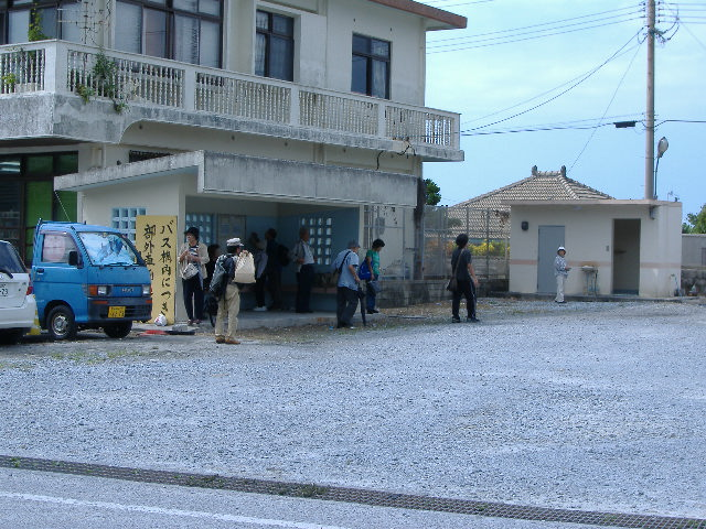 Hentona Bus Terminal